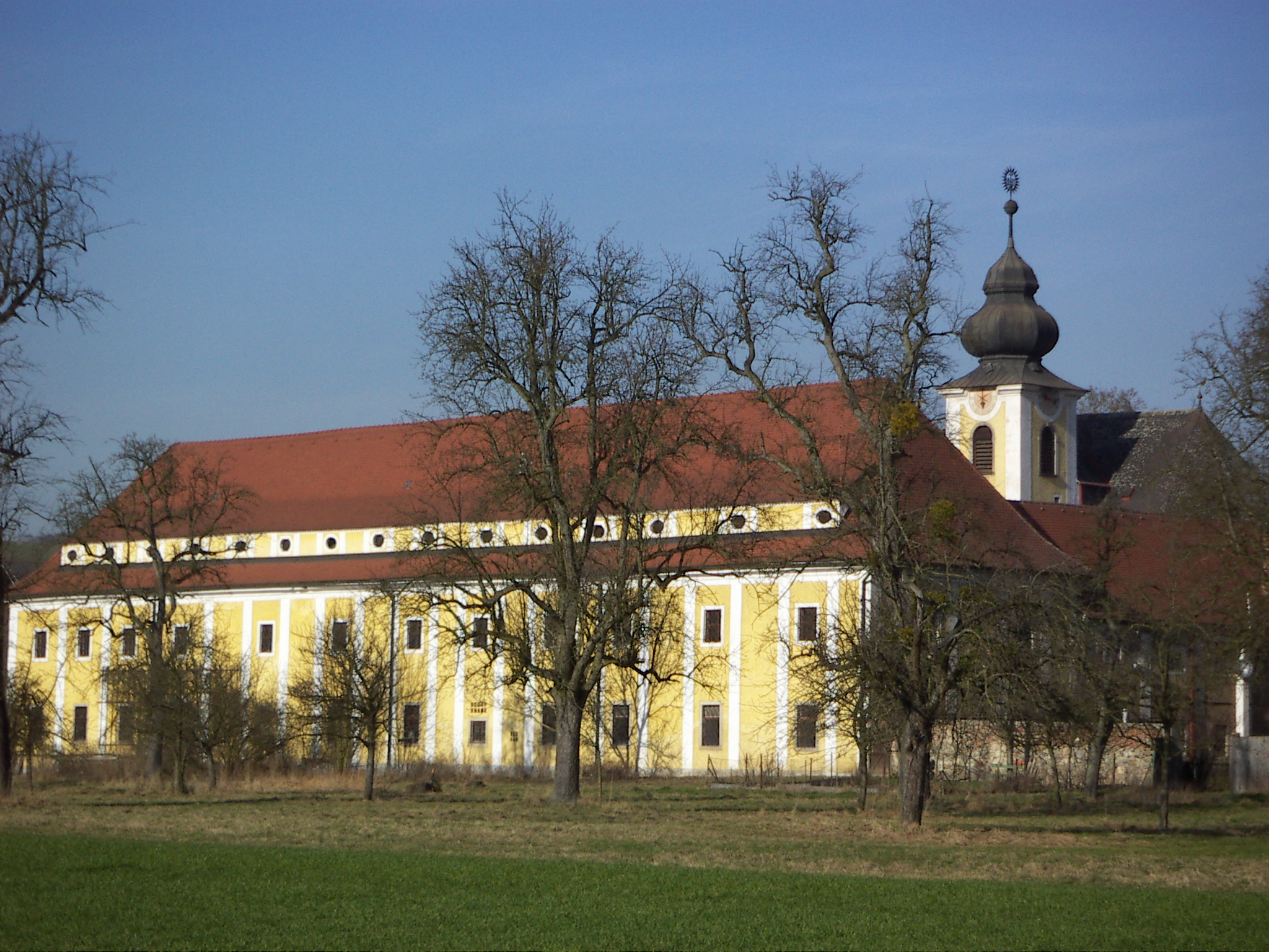 The photograph shows the former monastery of Pulgarn, Austria. It was founded in the early 14th century and confiscated by the Austrian state at the end of the 18th century.